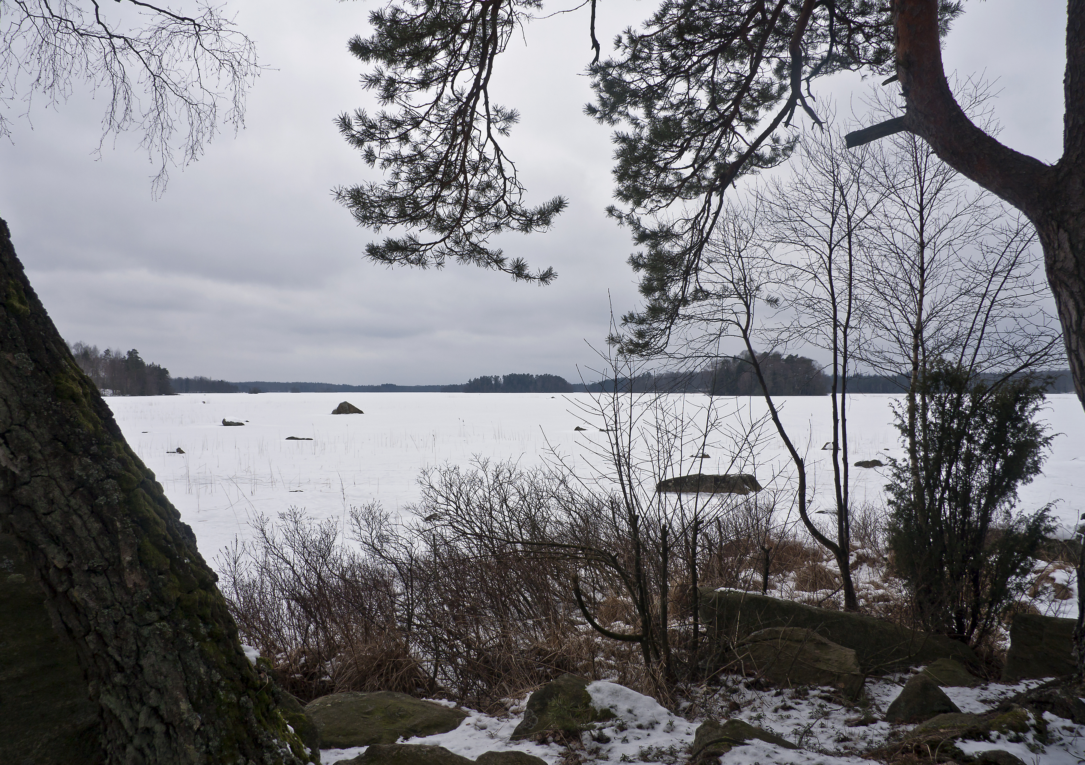 Lake Värsjön in northern Scania, Sweden.